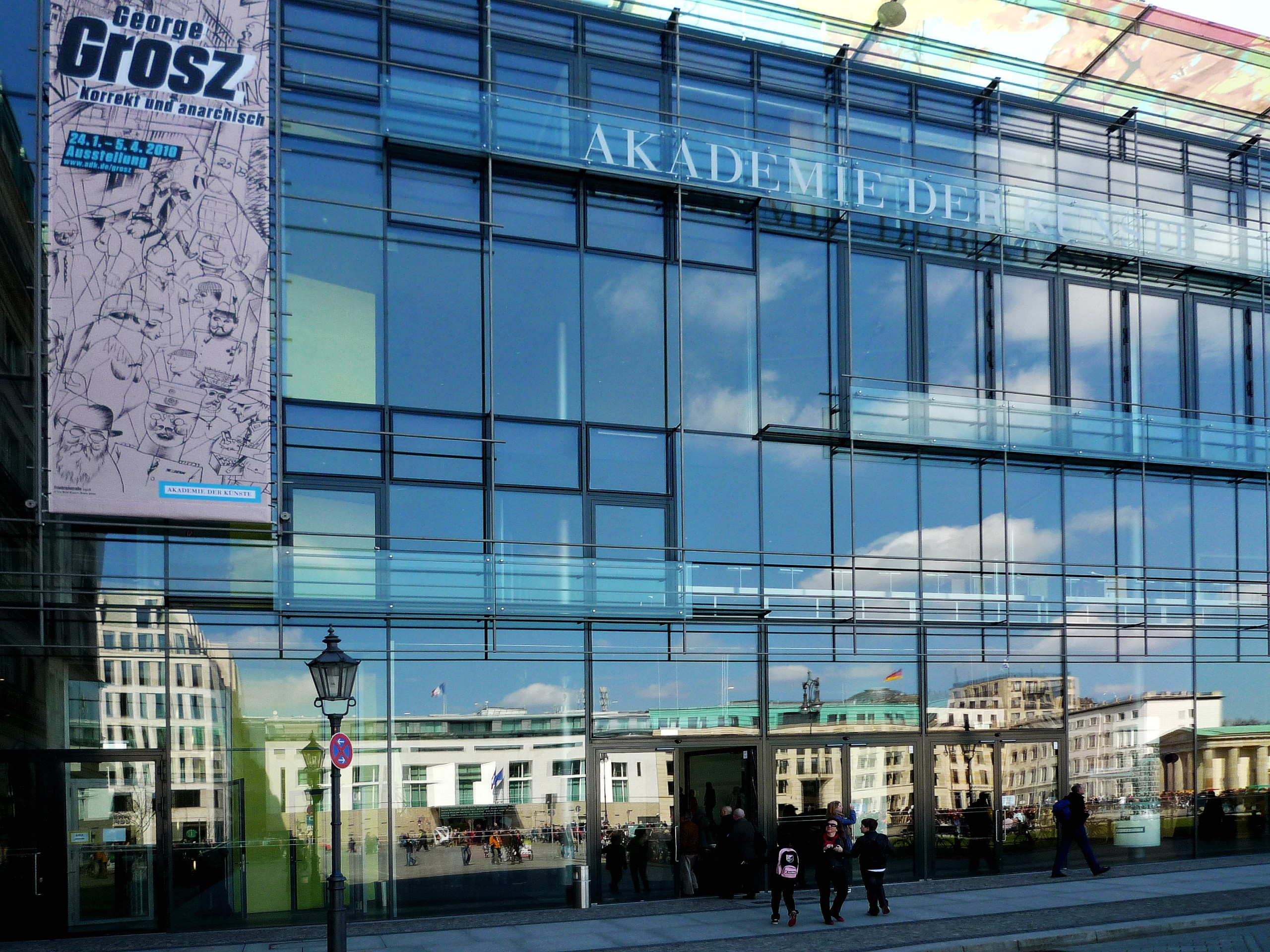 Akademie der Künste (Academy of Fine Arts) at Pariser Platz in Berlin. Facade.